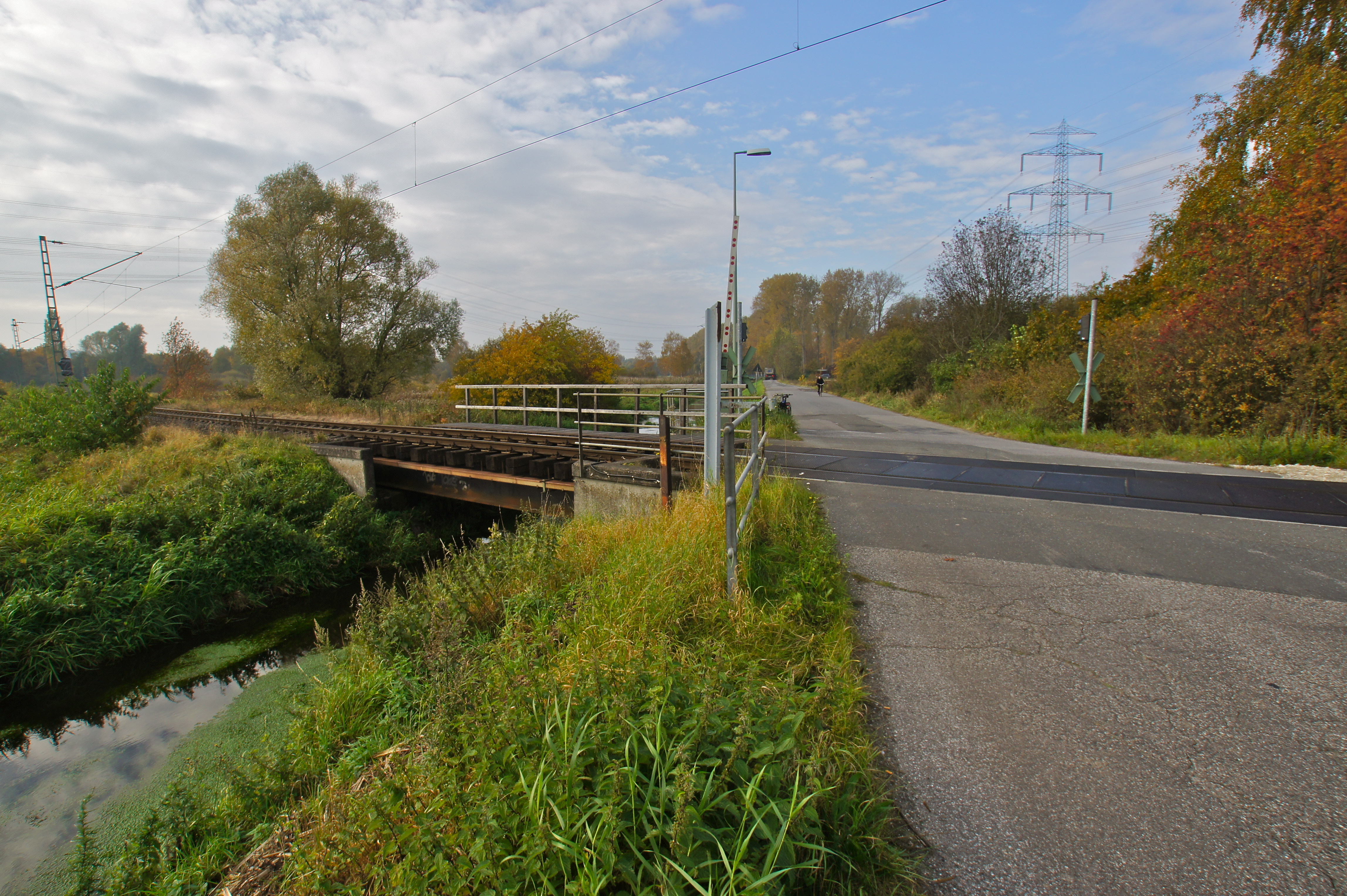 Hamburg (Moorburg), Germany: The railway bridge over the Industriekanal